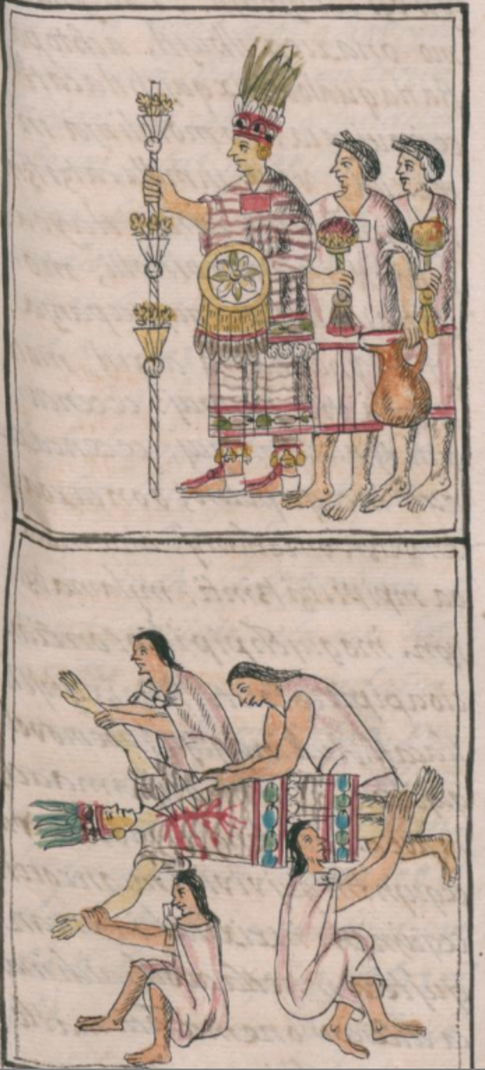 This is from the 26th Chapter of the 2nd book of Sahagun's Florentine Codex, which was published in the 16th century. It depicts Huixtocihuatl and her sacrifice.